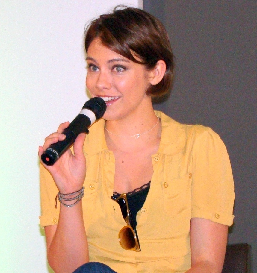 Actress Lauren Cohan at the Rogue Events: Insurgence 3, 2011.